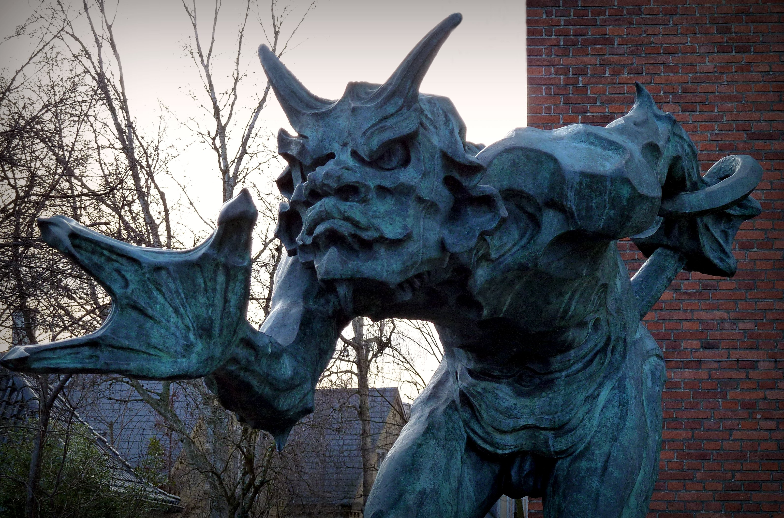 "Troll that smells Christian blood" by Niels Hansen Jacobsen Wiki